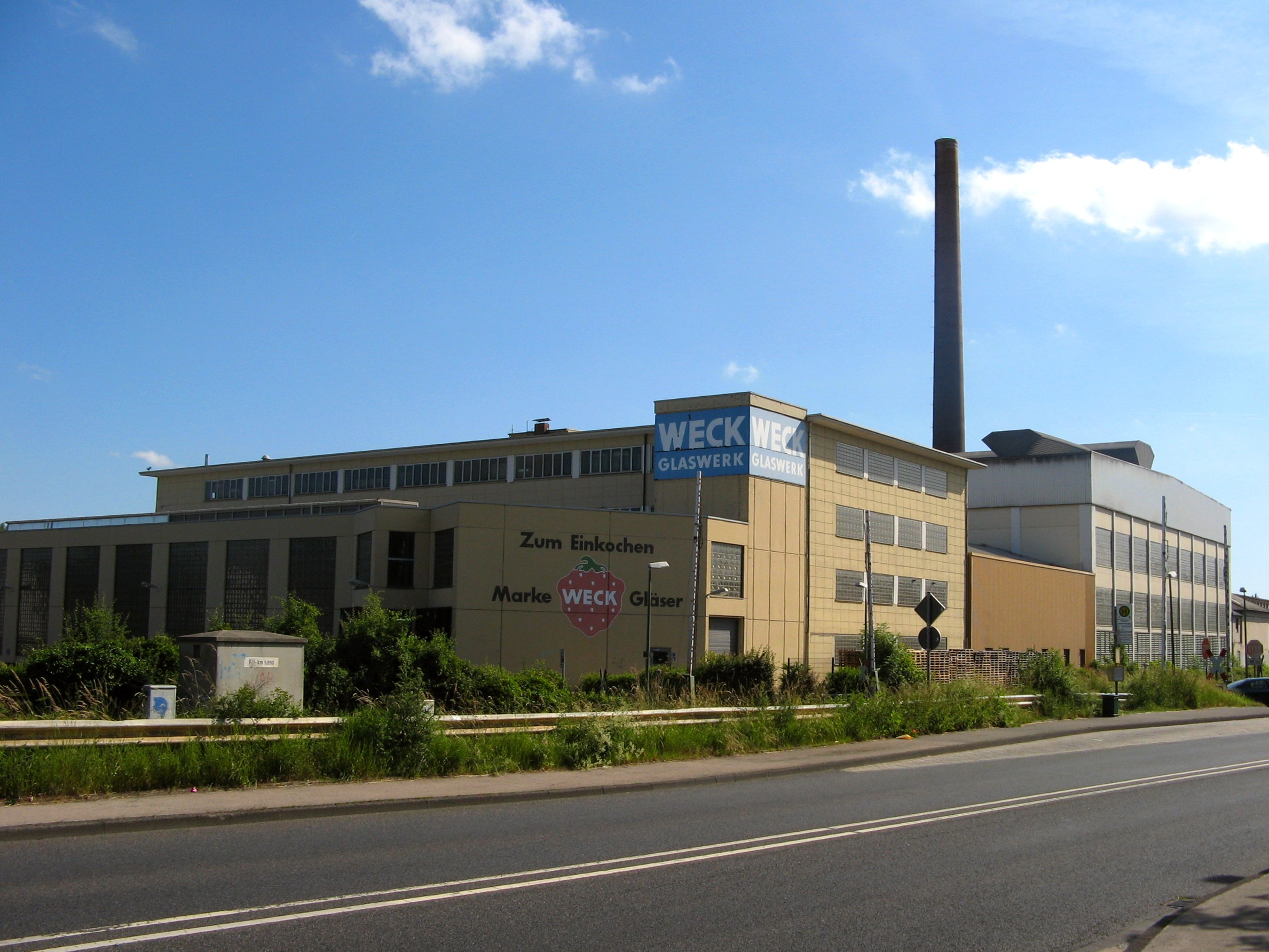 Weck Glassworks - Bonn-Duisdorf, North Rhine-Westphalia, Germany